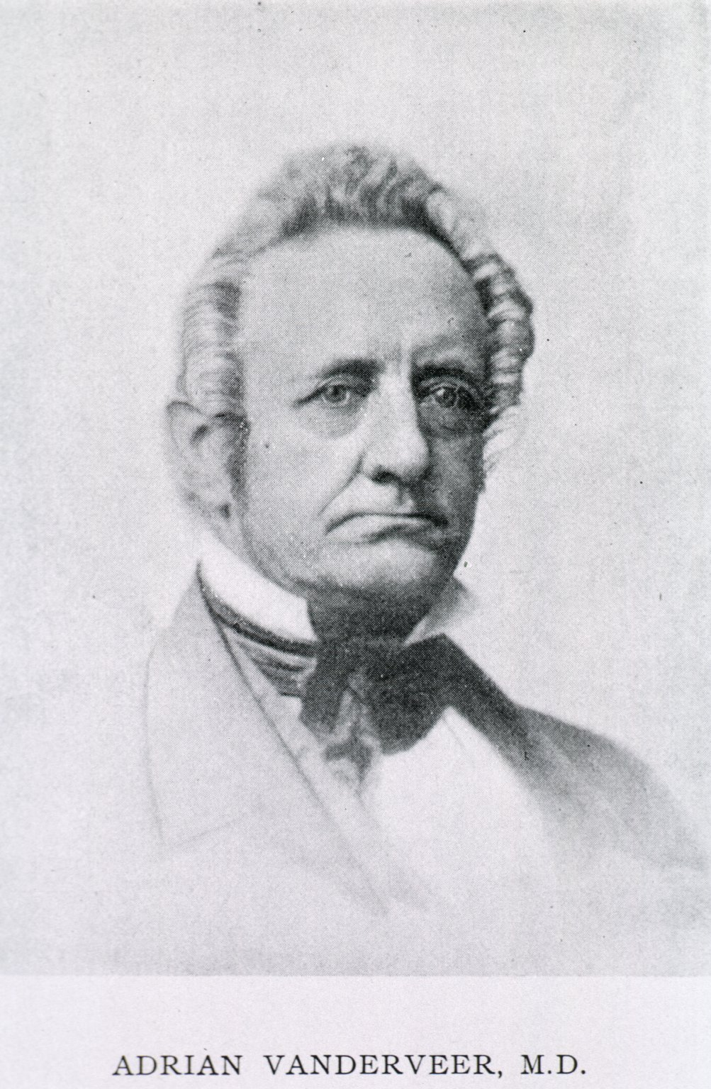 Adrian Vanderveer (1796-1857)